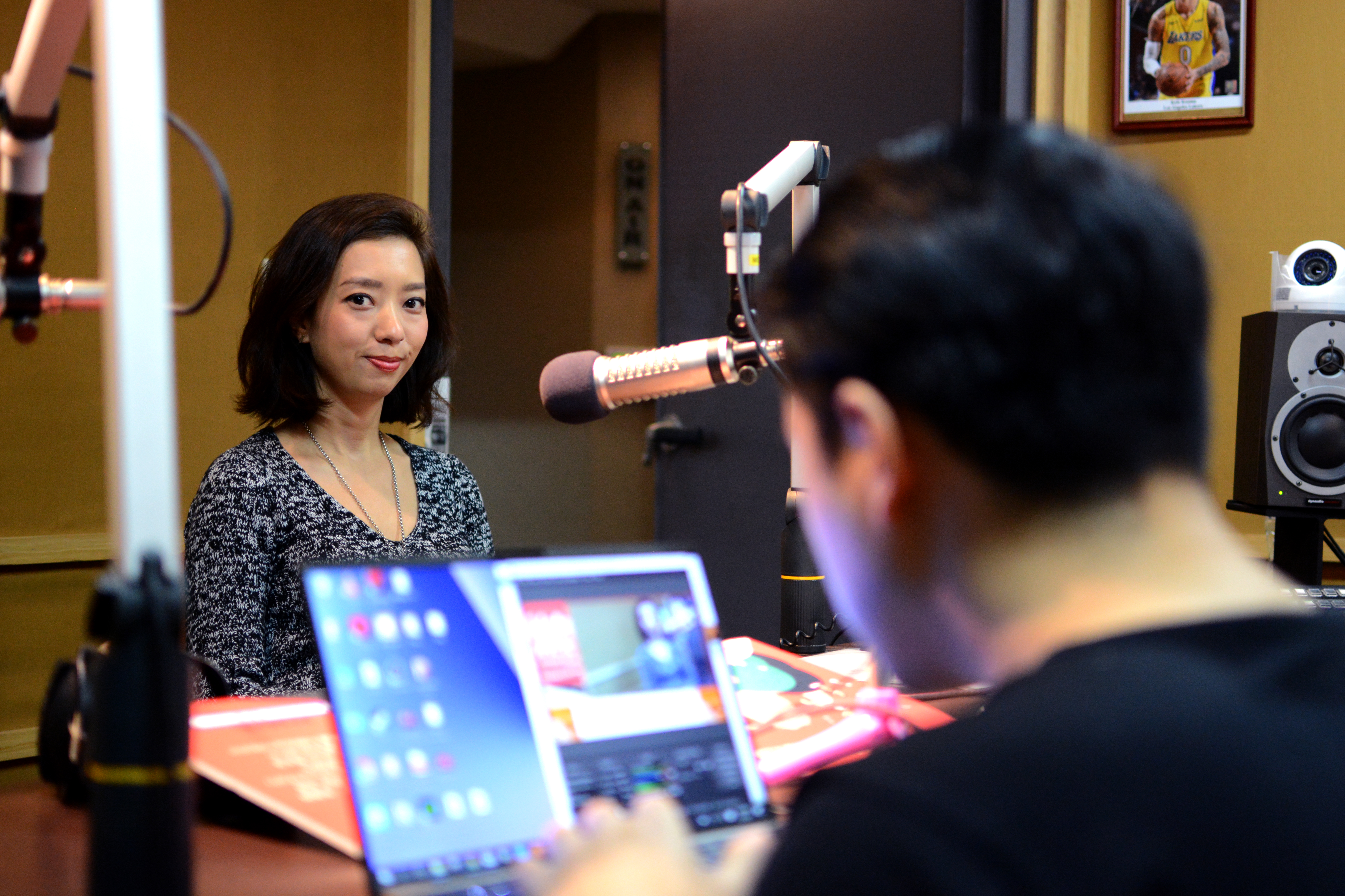 Esther Veronin at ICRT in 2019 speaking with sister Lara Veronin on Meimeiwawa's involvement in the 3/9 Women's March Taiwan Chapter event.